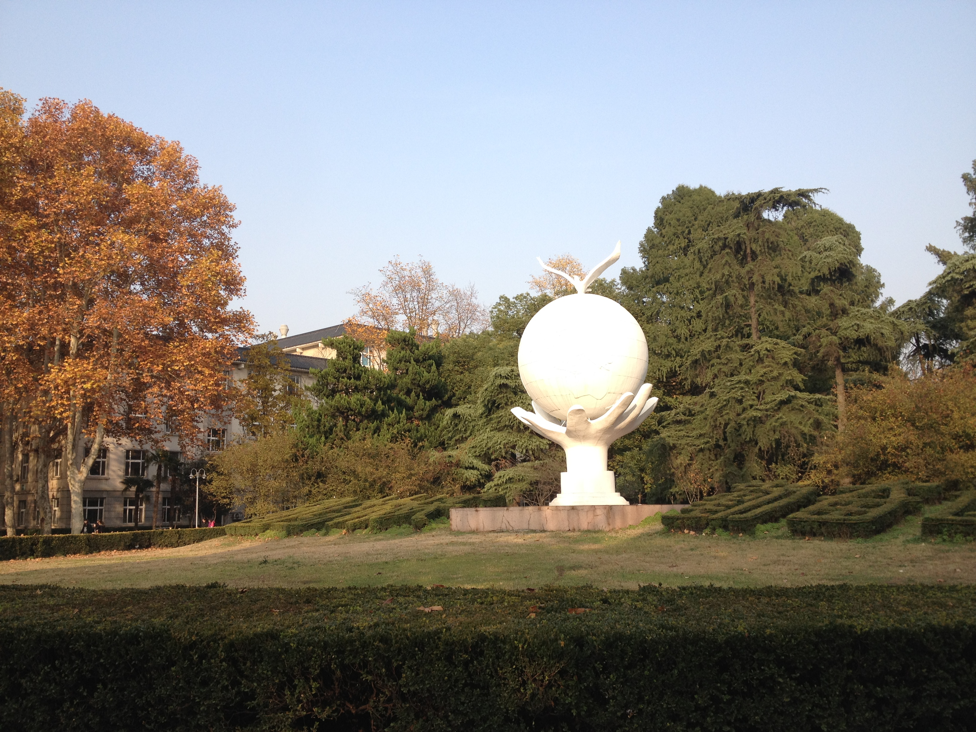 A sculpture in Nanjing Forestry University of two hands holding the earth.